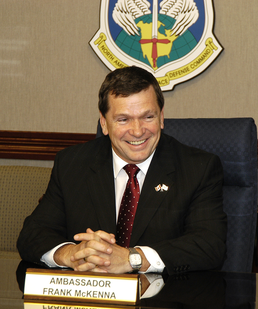 Canadian Ambassador to the United States Frank McKenna